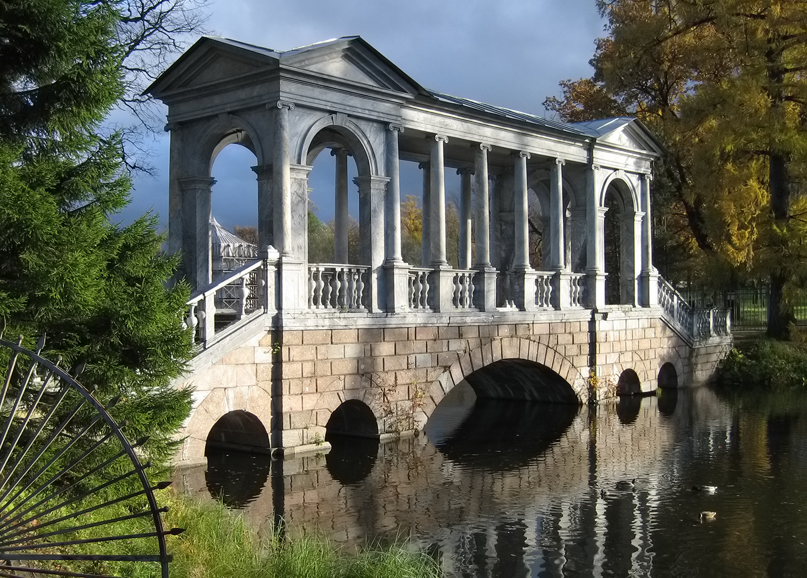 Marble bridge in Catherine Park, Pushkin town.